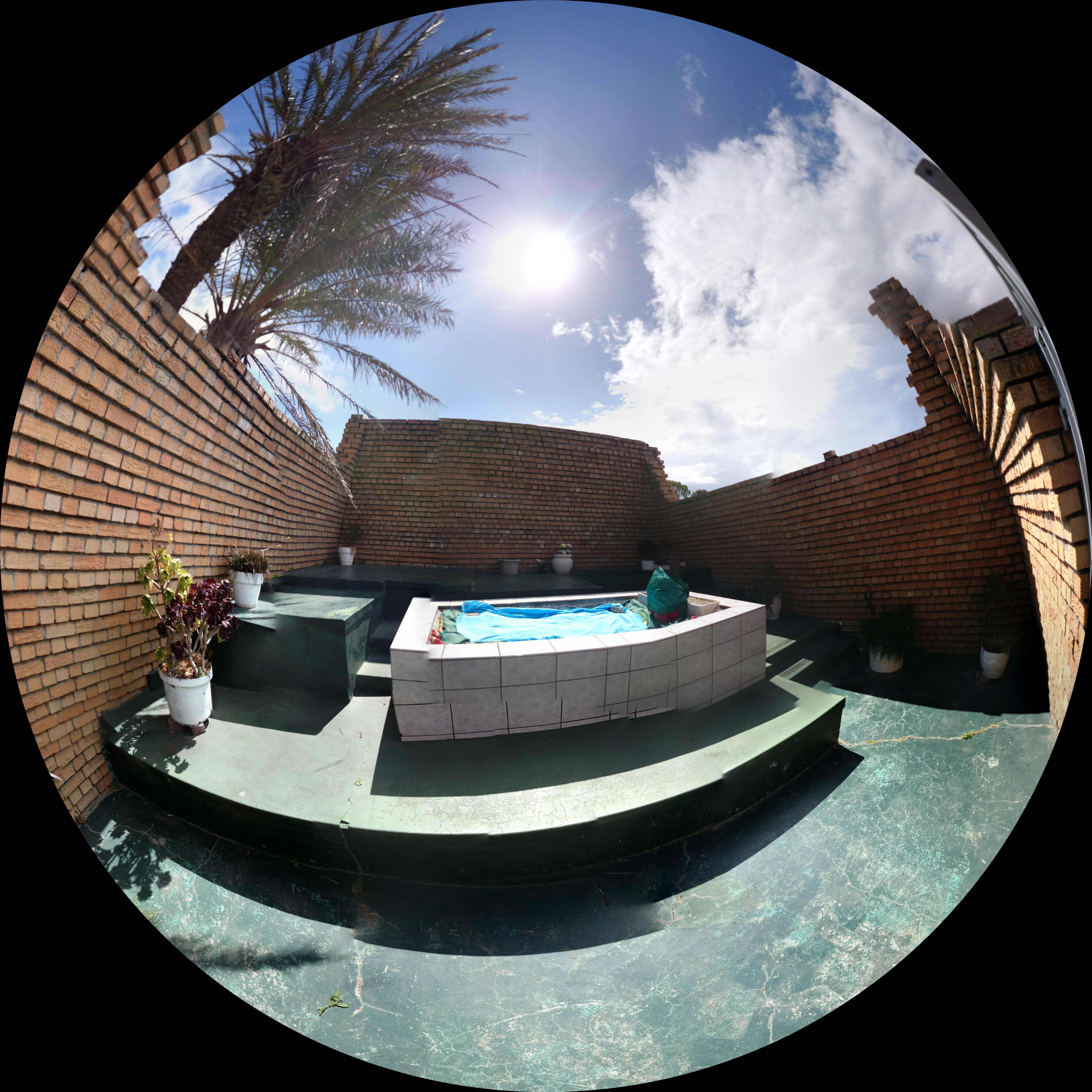 Inside one of the tombs at Tana Baru Cemetery, Bo-Kaap, Cape Town, South Africa